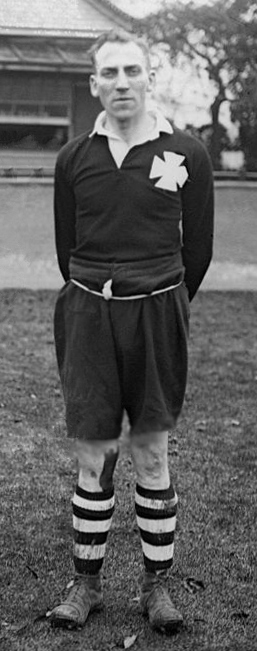 November 1928: Welsh rugby international Thomas Hollingdale at Preston Park.